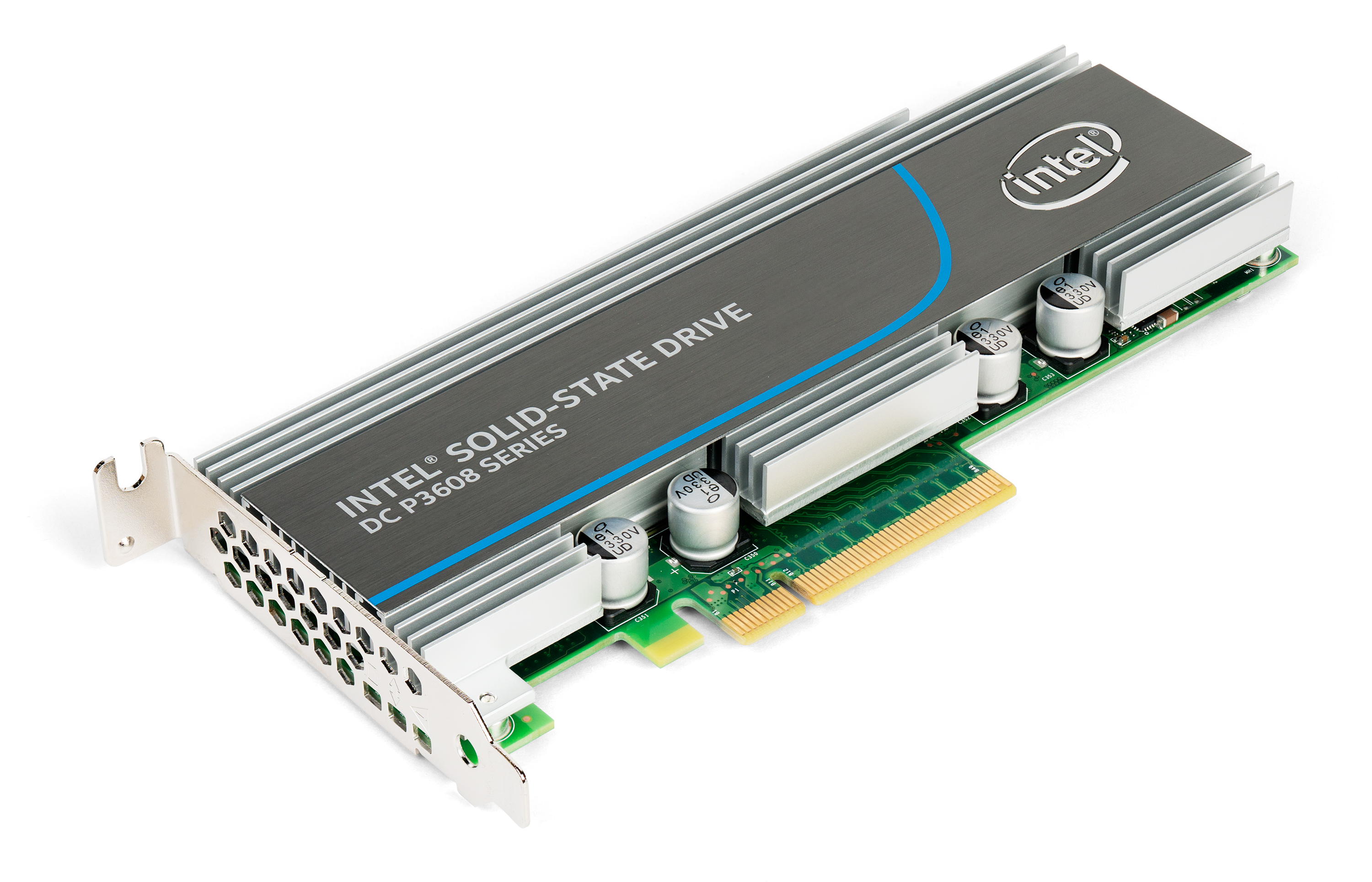 Intel P3608, NVMe-compatible solid-state drive, PCI Express 3.0 x8 low profile add-in card, 1.6TB model